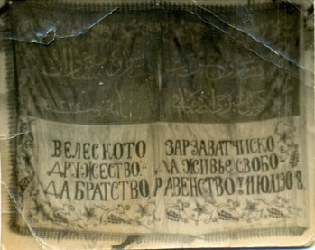 Veles Vegetable Producers Guild Flag 1908